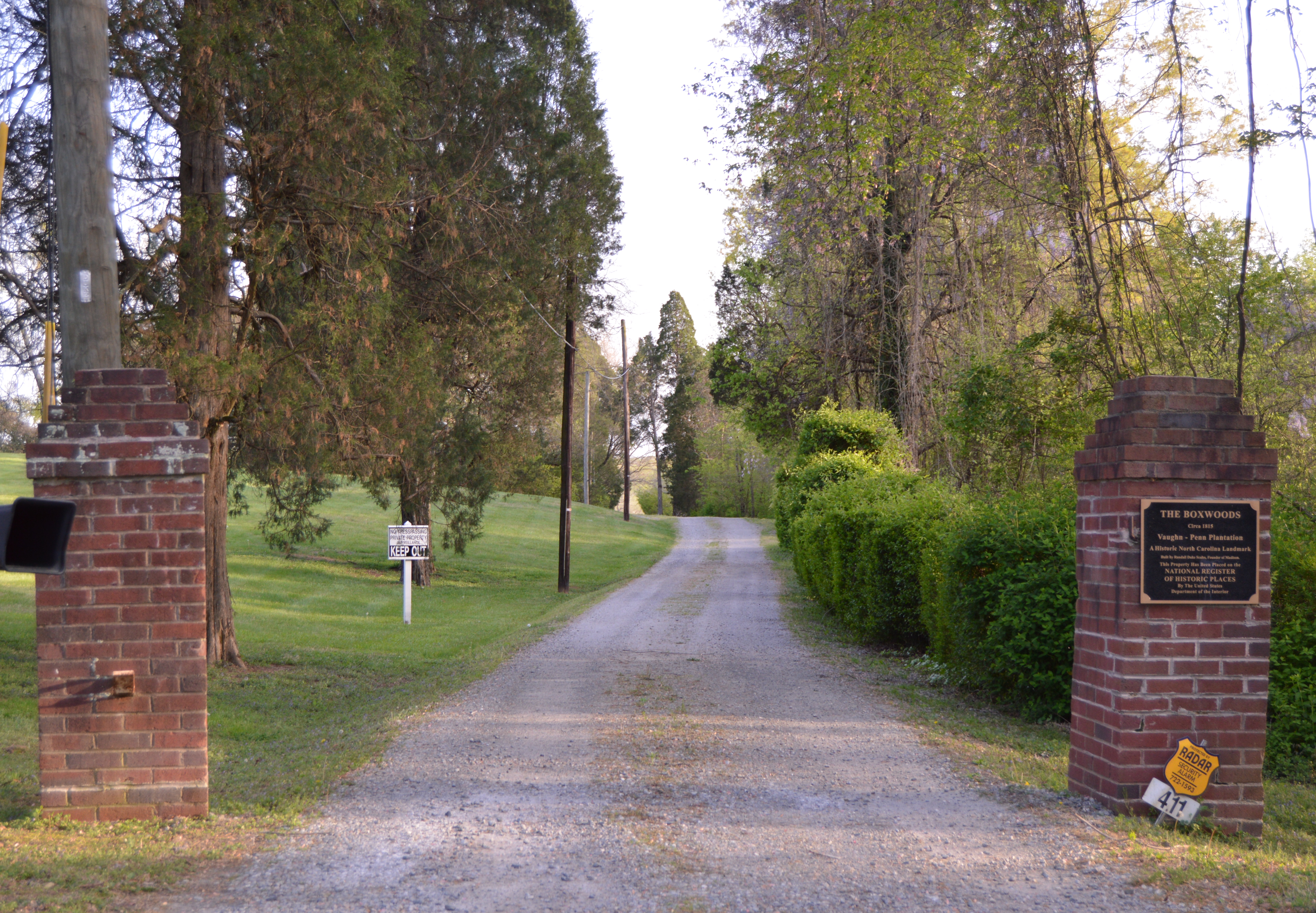 Driveway entrance to The Boxwoods property, located at the end of Penn Lane in Madison, North Carolina, United States. The property is listed on the National Register of Historic Places.